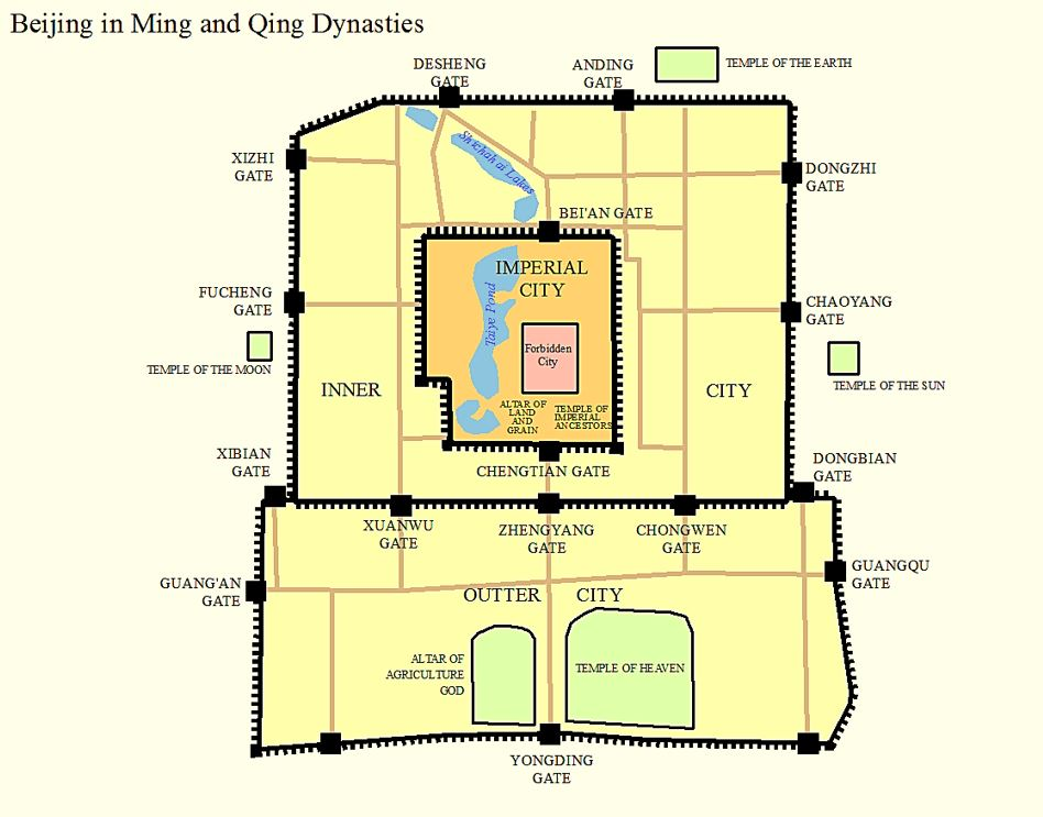 Map of Beijing in Ming and Qing Dynasties